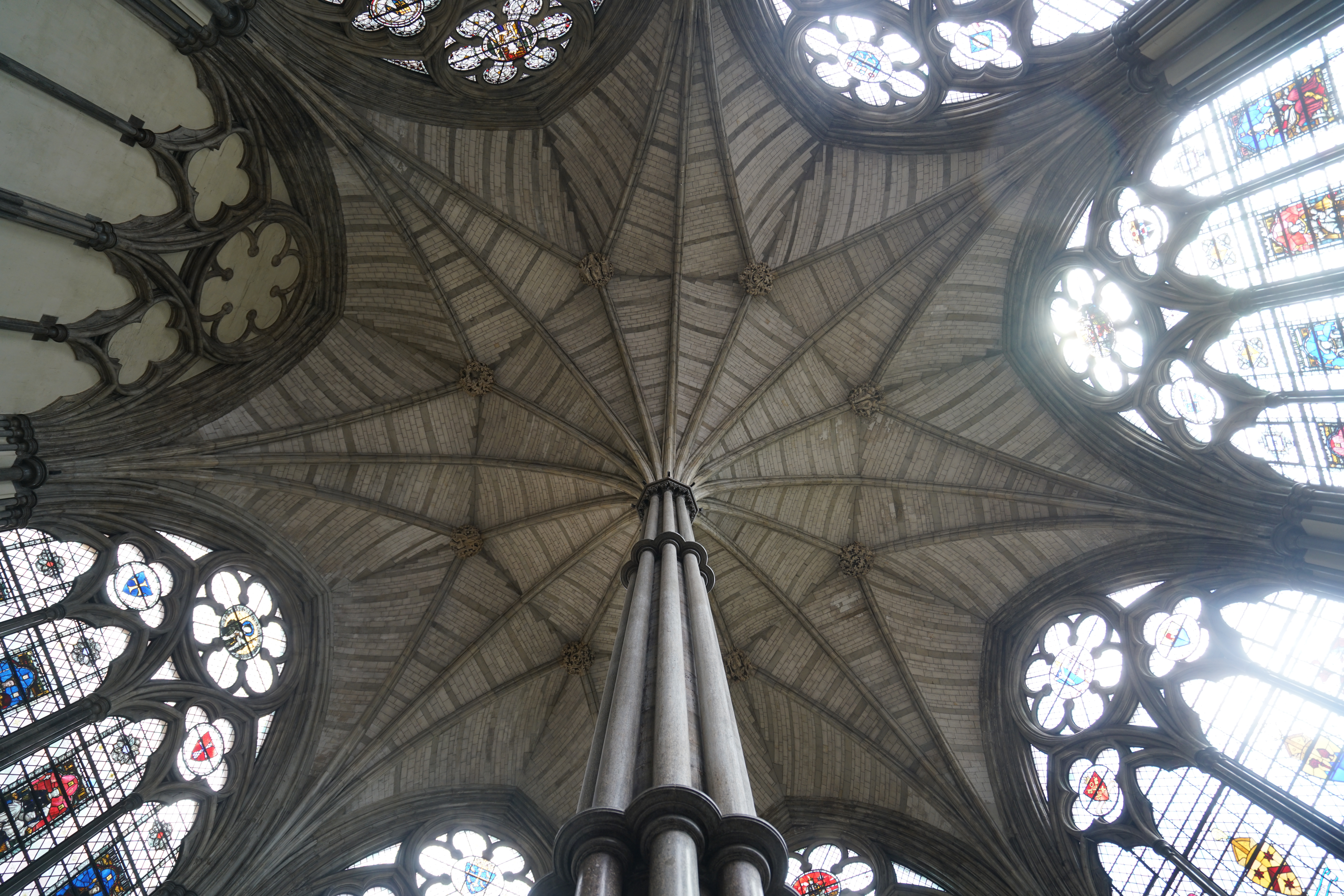 Chapter house of Westminster Abbey (London)